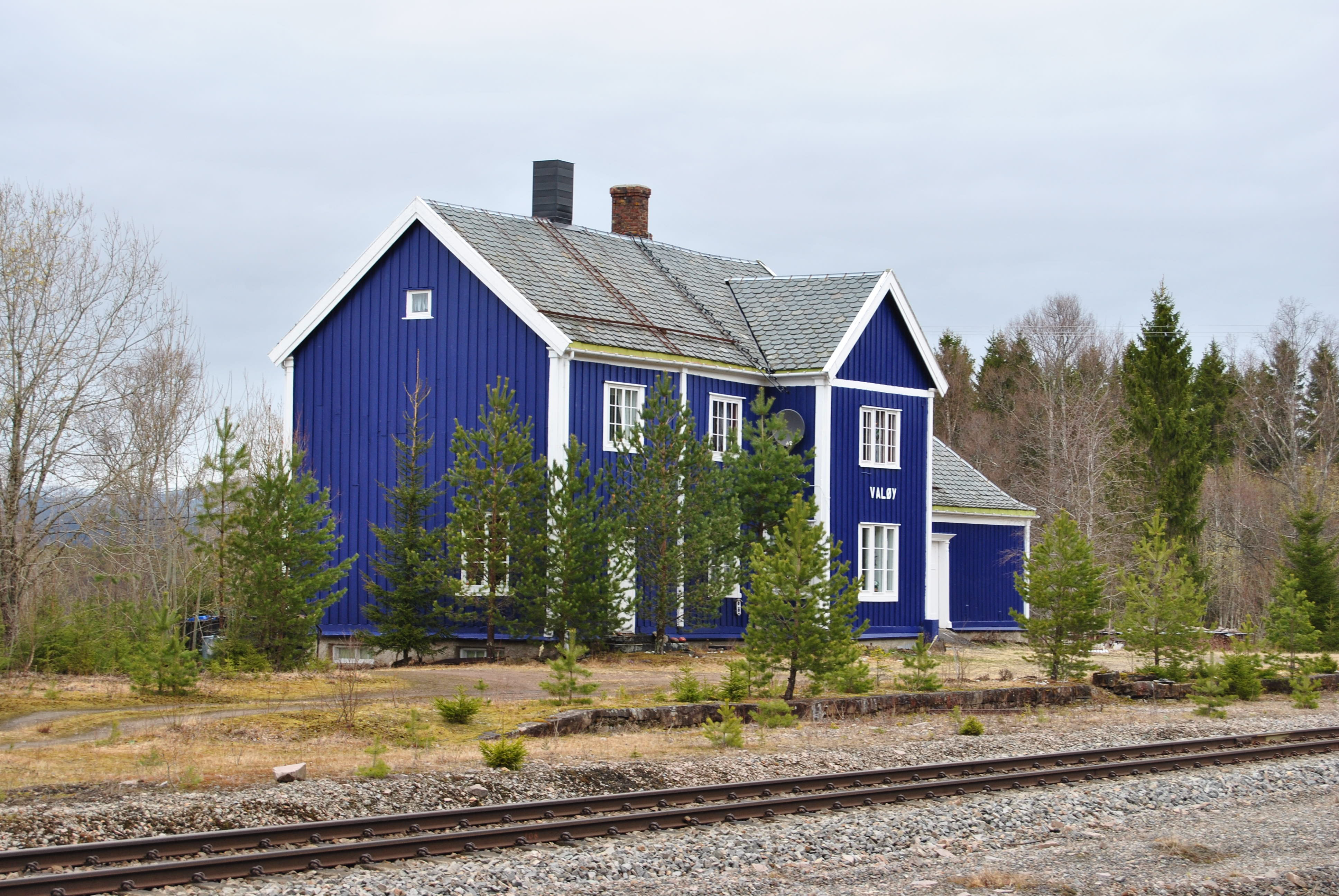 Valøy Station of the Nordland Line, Steinkjer, Norway